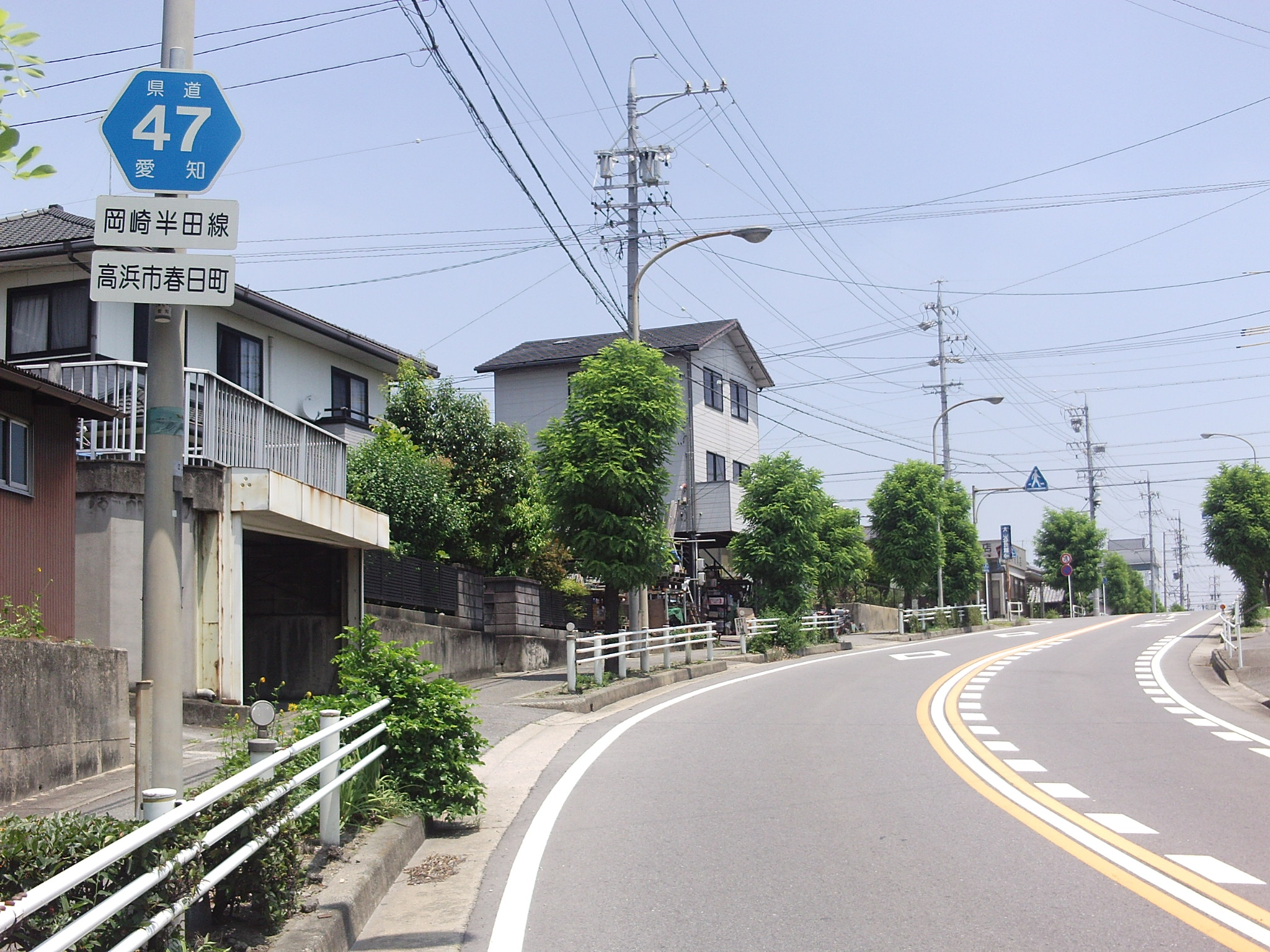 Aichi prefectural road No.47 in Kasuga 7-chome, Takahama, Aichi.